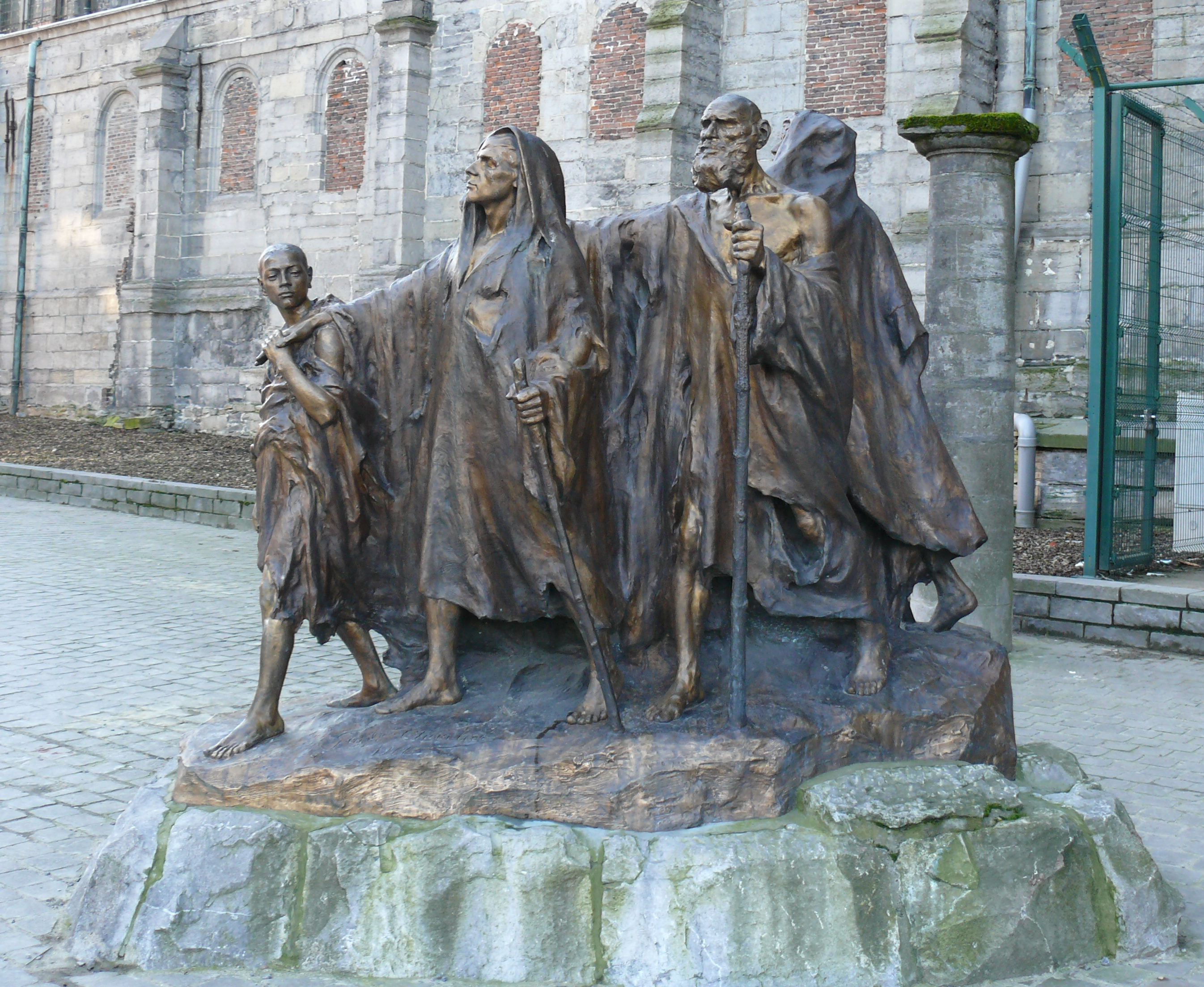 The Groupe des aveugles by Guillaume Charlier (1908) in front of the Cathedral in Tournai (Belgium)